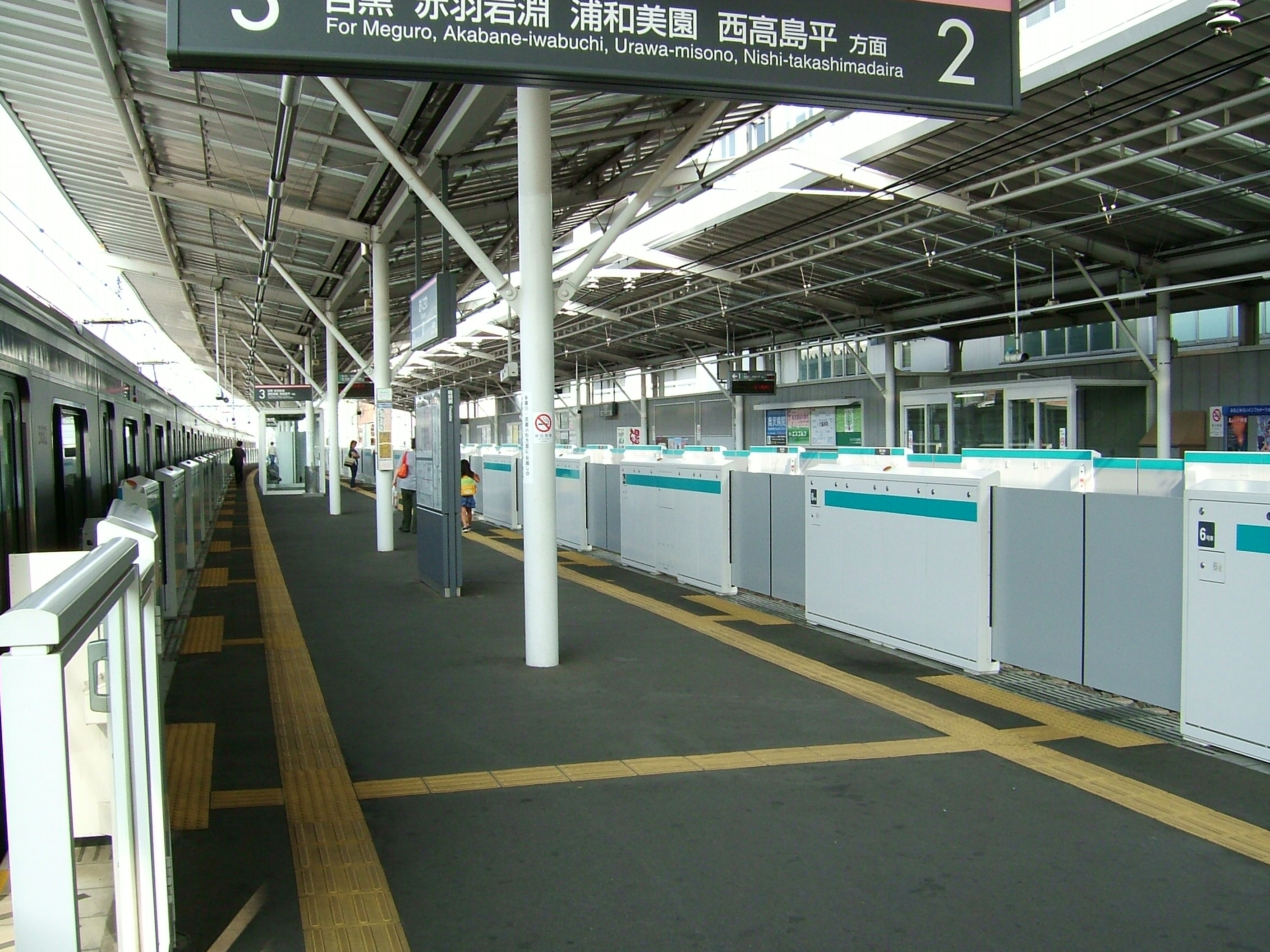 The platforms at Okusawa Station, Tokyu Meguro Line